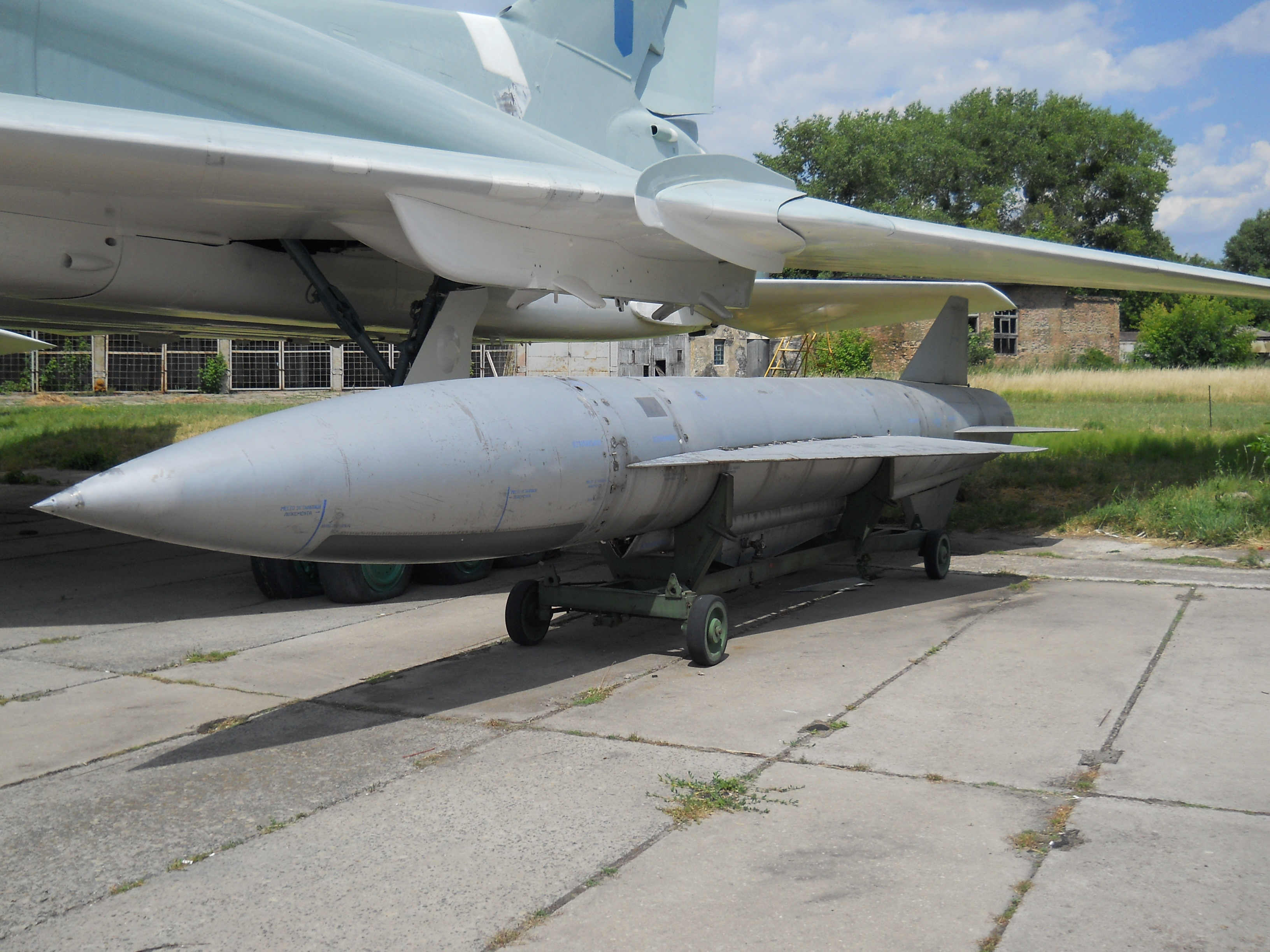 A Raduga Kh-22NA (AS-4B Kitchen) in the Ukrainian State Aviation Museum.